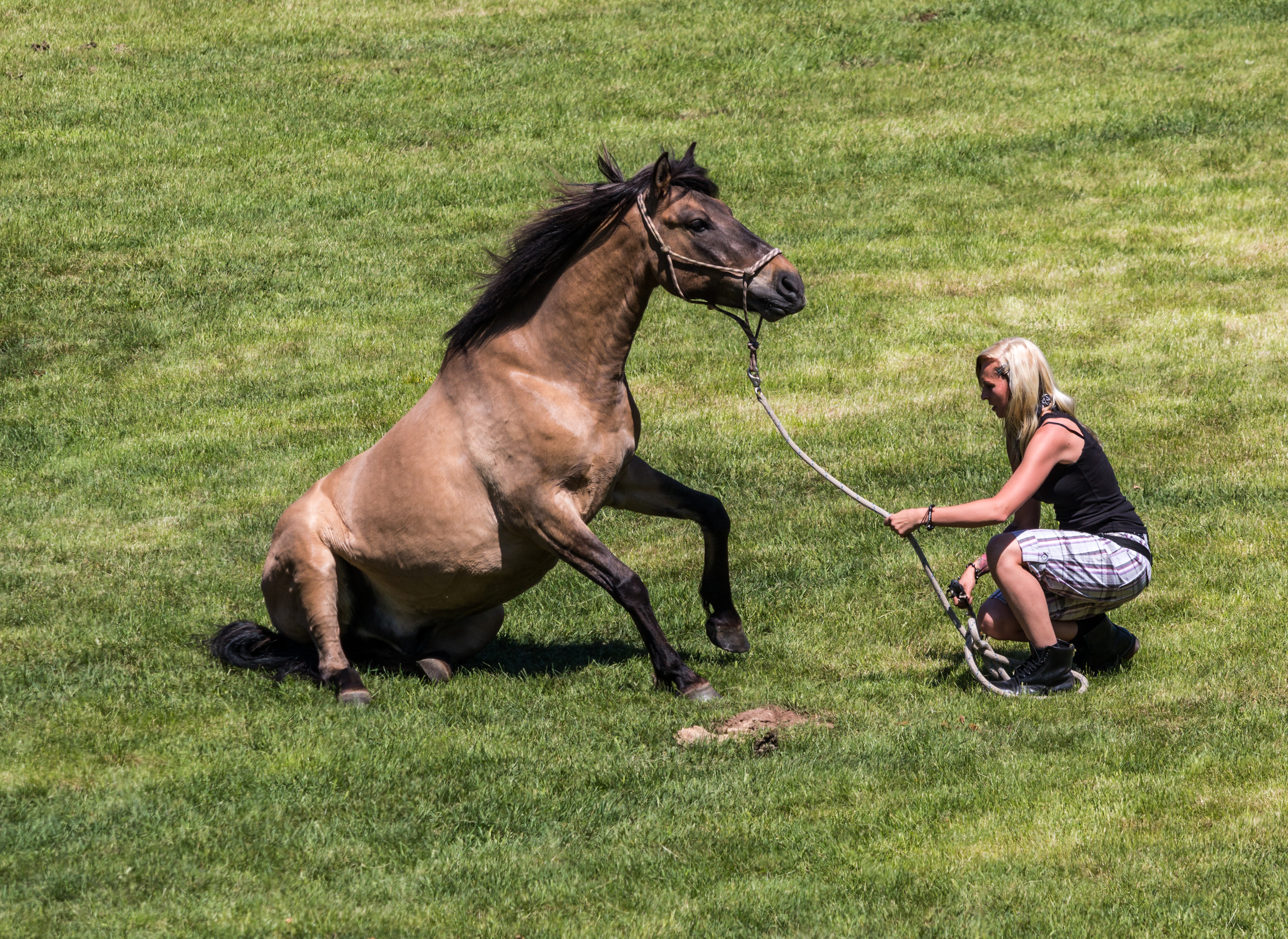 Preliminary Program (Wildpferdefreunde e. V., Dülmener Wildpferde), Merfelder Bruch, Dülmen, North Rhine-Westphalia, Germany; Wildpferdefang 2014